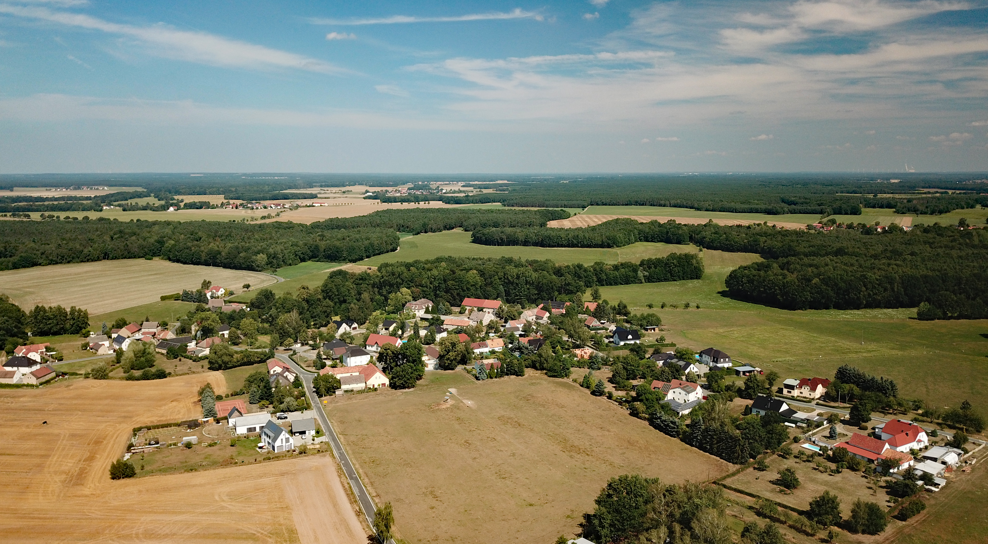 Doberschütz (Neschwitz, Saxony, Germany) Hornjoserbsce: Powětrowy wobraz Dobrošic